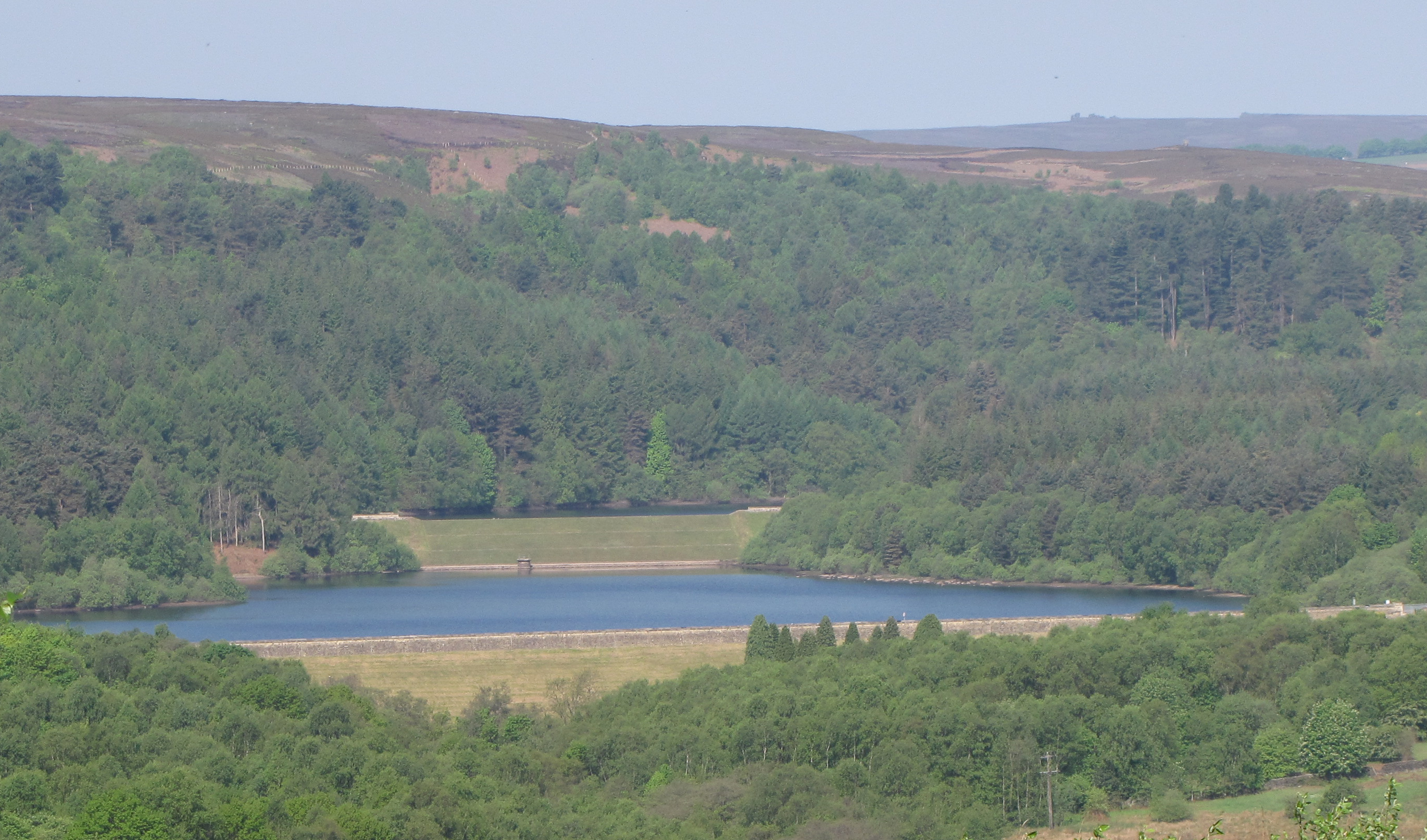 Rivelin Dams seen from Lodge Moor in Sheffield, England